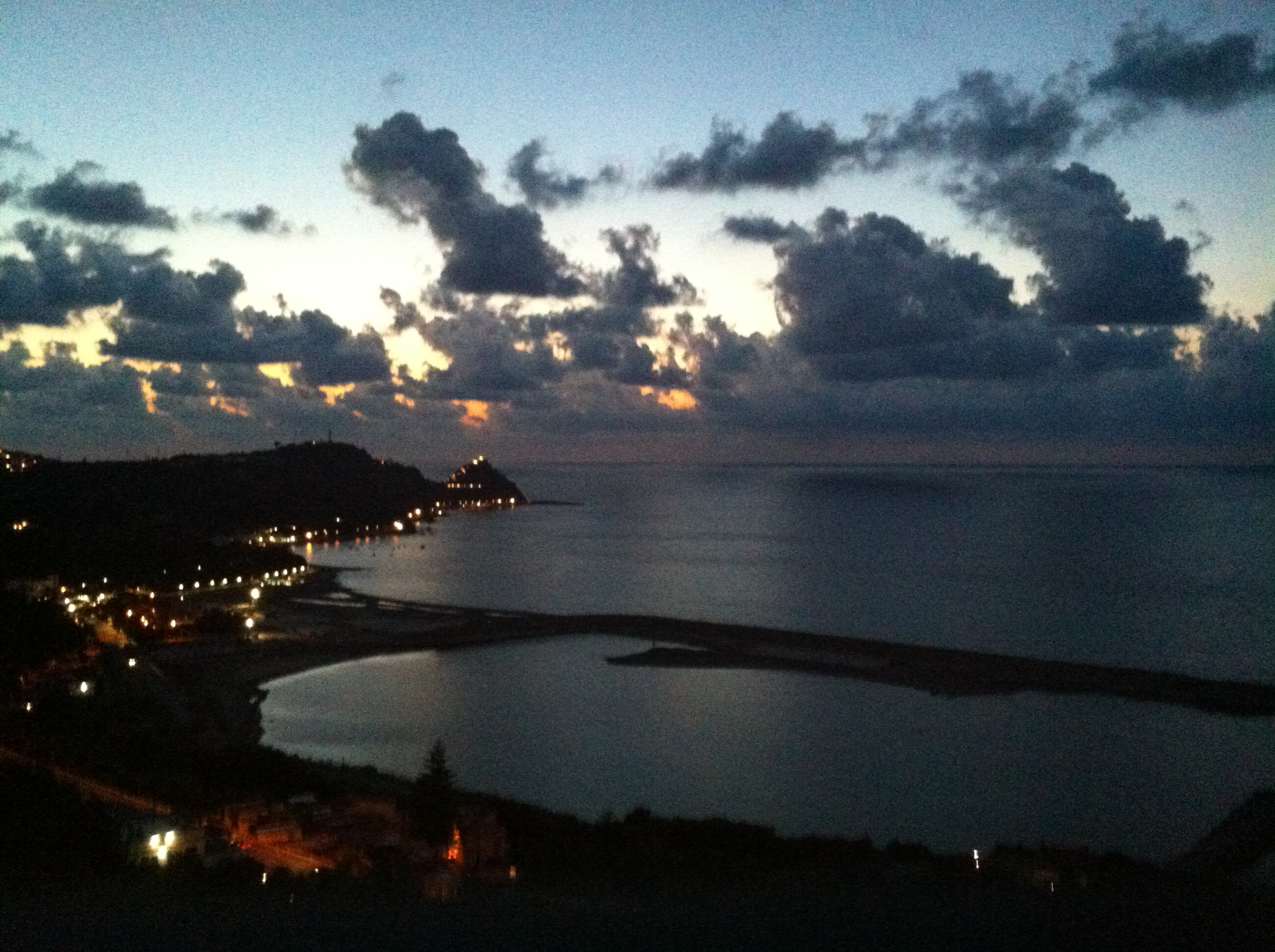 Capo d'Orlando - view of the harbour from Scafa